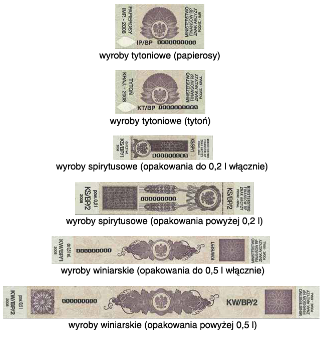 Polish excise stamps